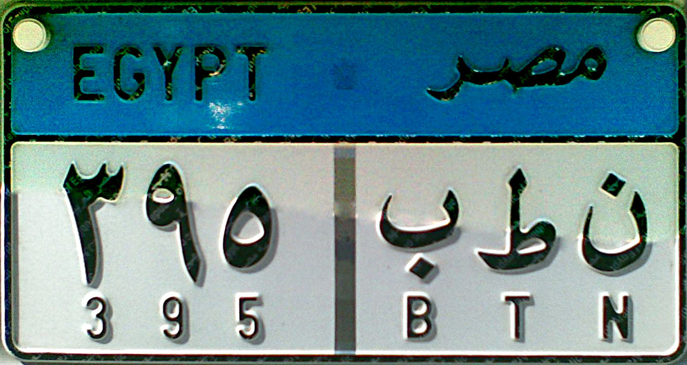 Egyptian vehicle registration number for private cars